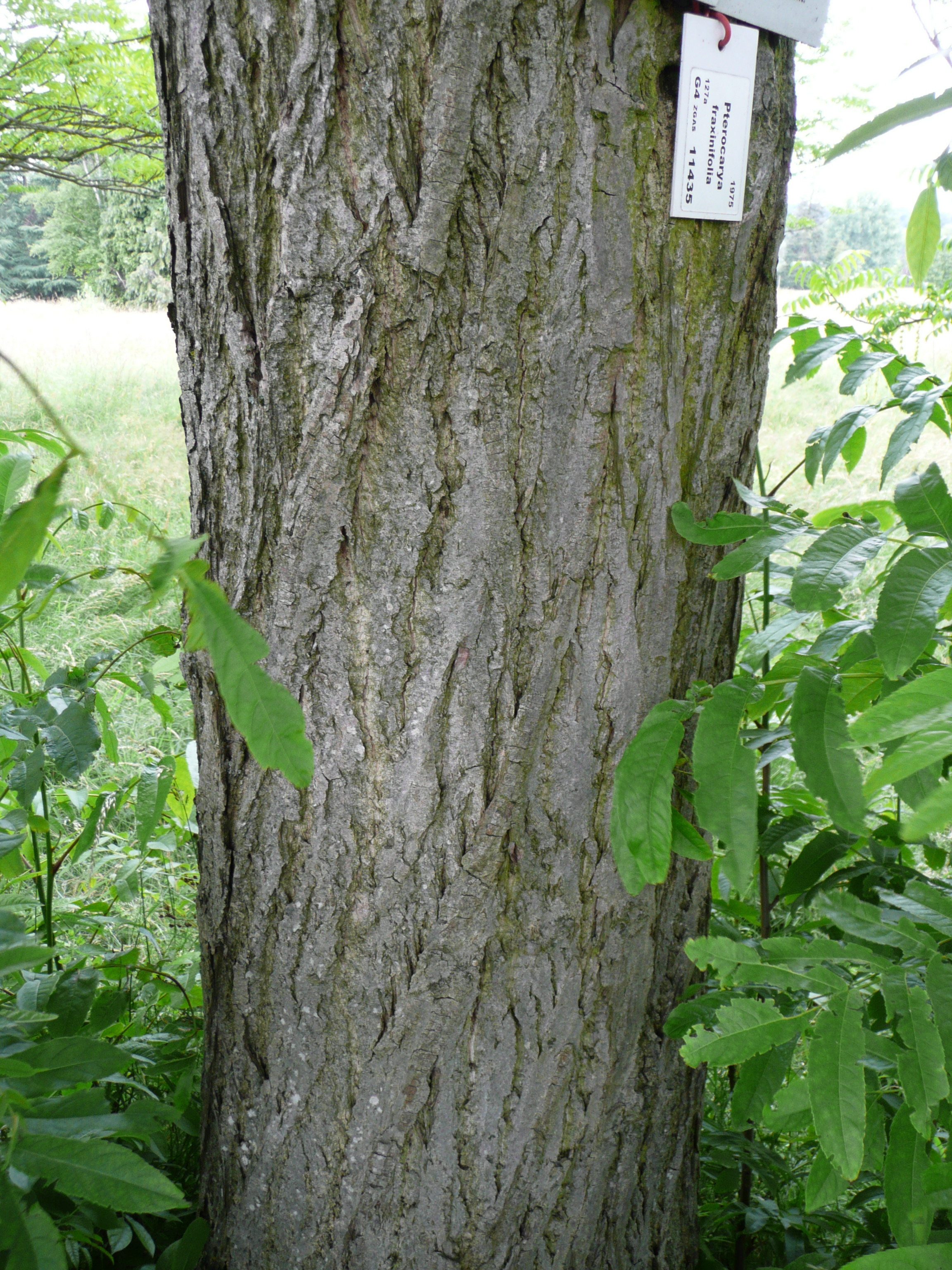 Pterocarya fraxinifolia in the Arboretum de Chèvreloup in Rocquencourt Map: 48° 49' 49" N 2° 06' 42" E